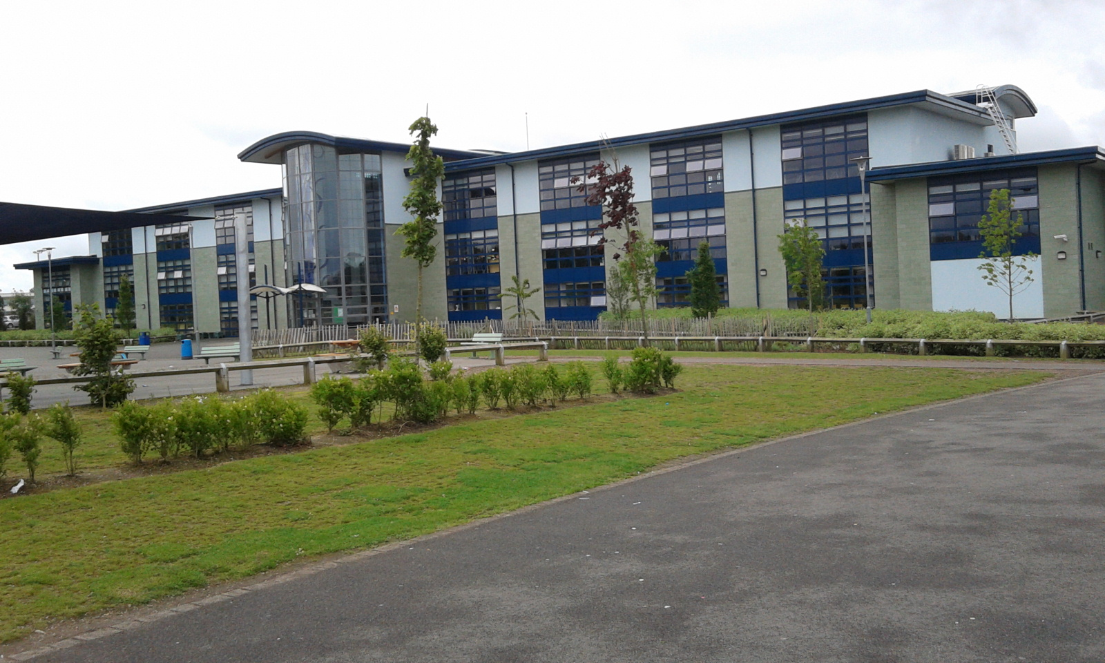 A photo of Gartree High School in Leicester